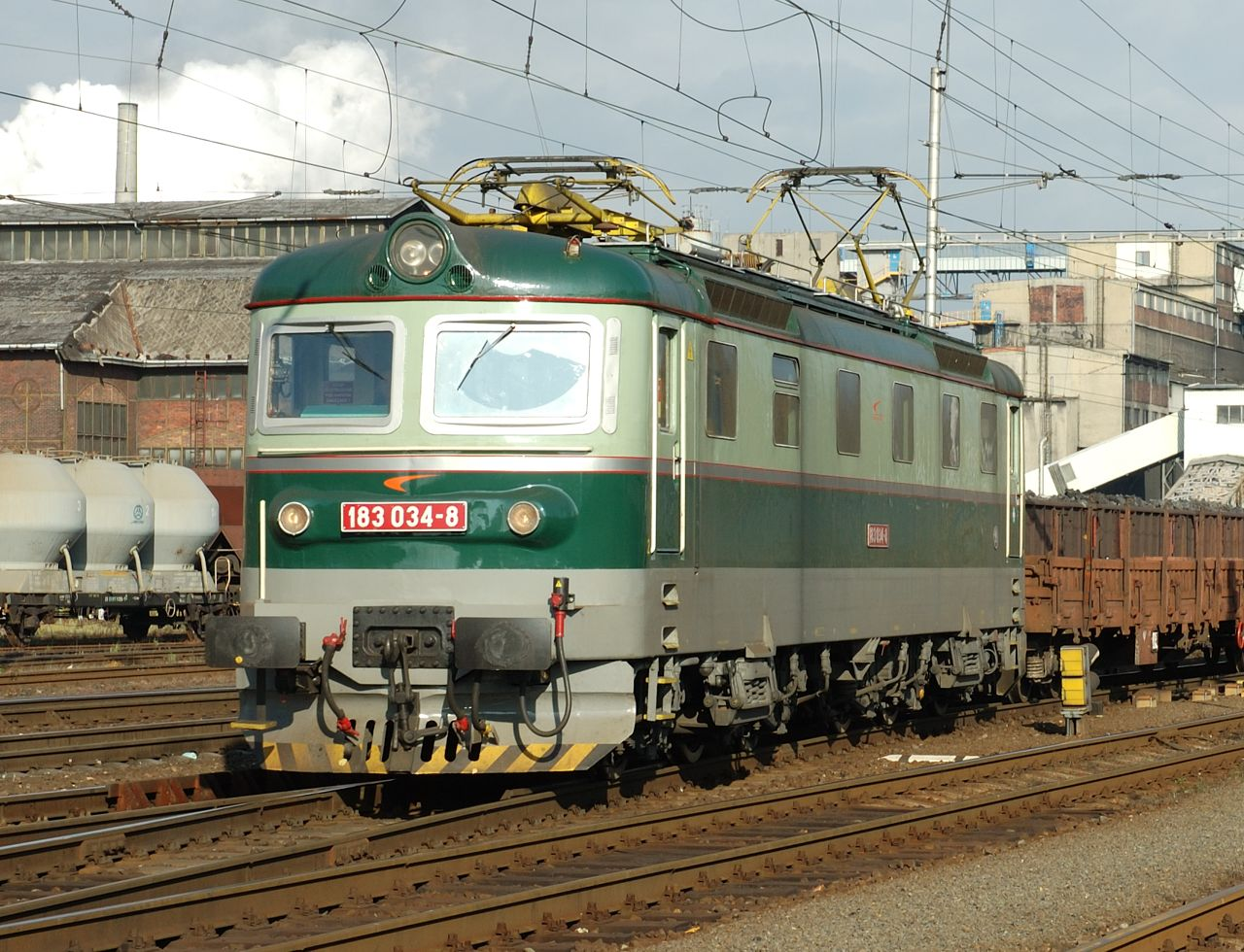 Locomotive 183.034 of Železničná spoločnosť Cargo Slovakia railway operator, Ostrava main station, Czech Republic